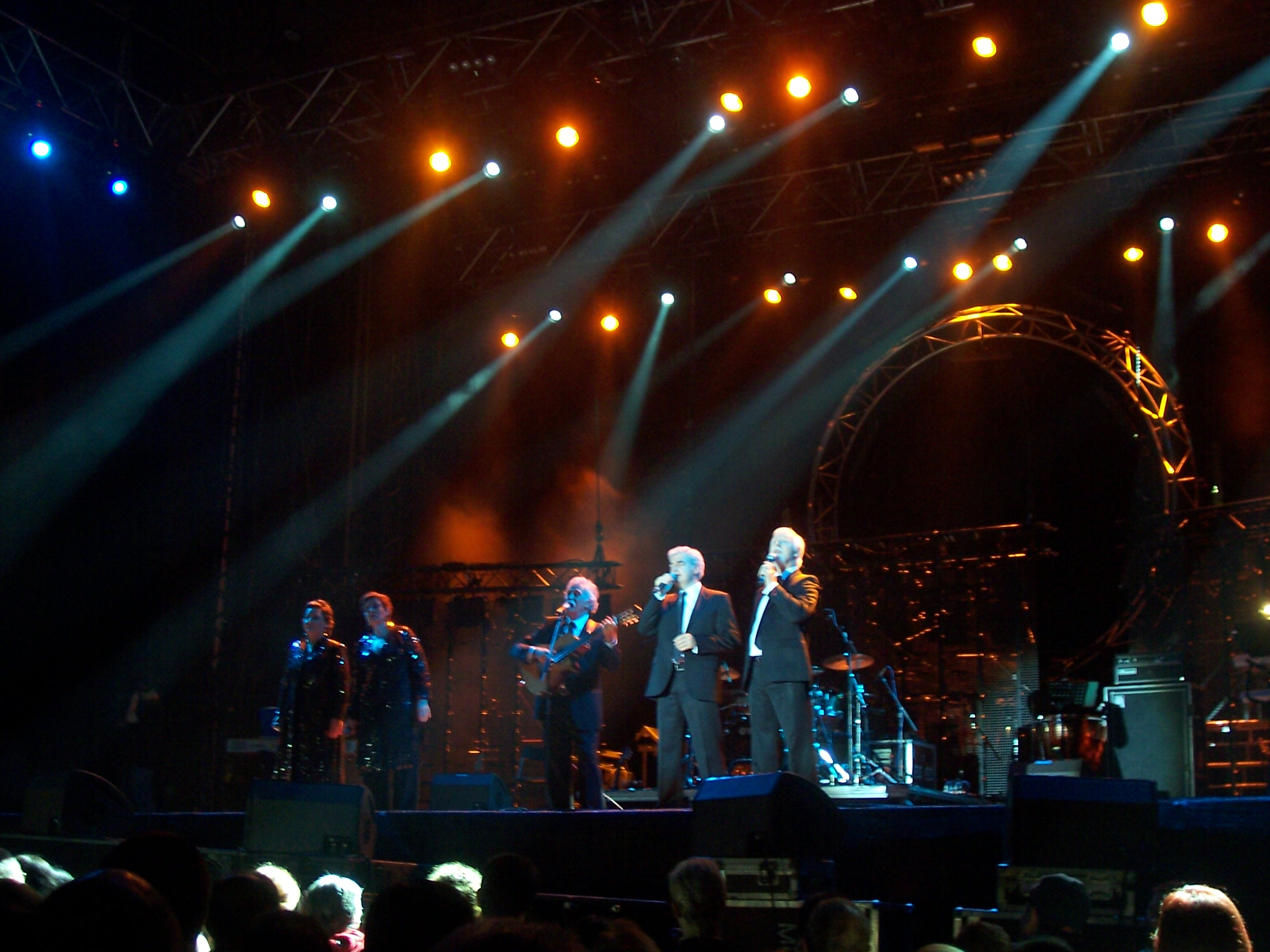 El Consorcio, a Spanish musical group during a concert in the Noroeste Pop Rock in August 14th 2009 in Praia de Riazor (La Coruña, Spain). From left to right, Estíbaliz y Amaya Uranga, Carlos Zubiaga, Iñaki Uranga and Sergio Blanco.